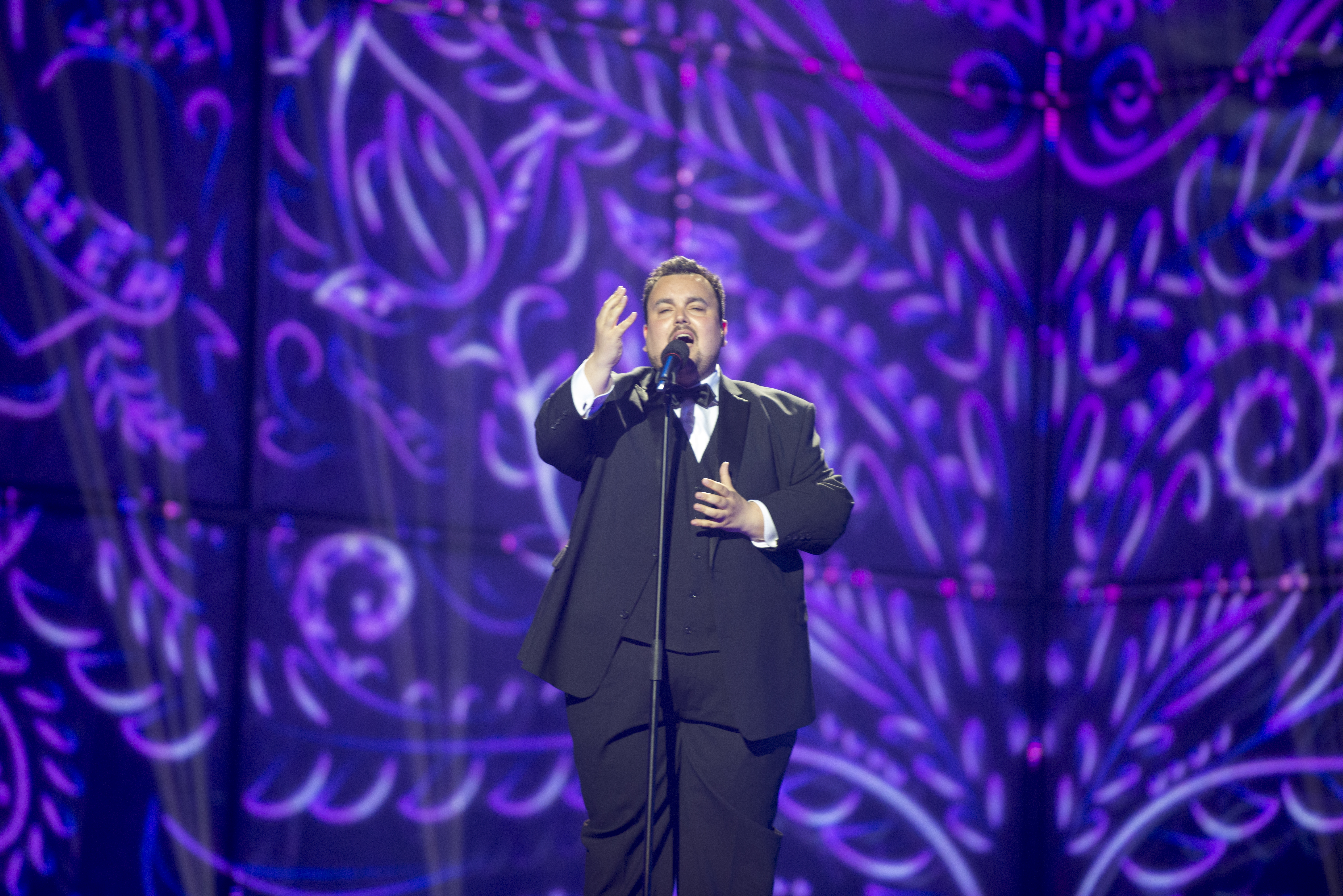 Axel Hirsoux representing Belgium with the song "Mother" during the first dress rehearsal of the first semi final of the Eurovision Song Contest 2014 Copenhagen. (Help translate this text)